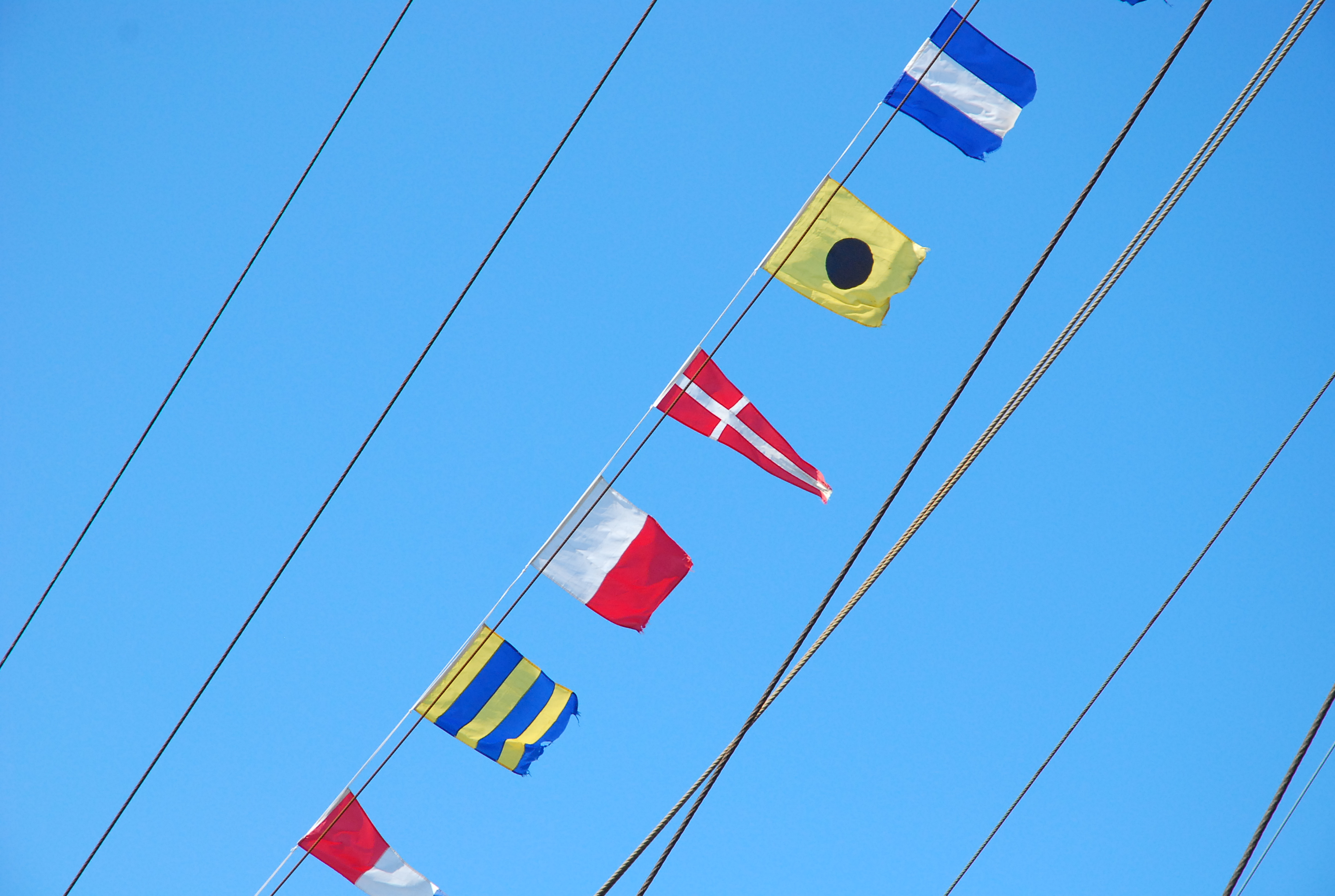 Types of flag